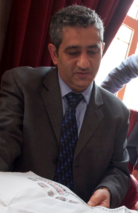 Ramada Palace Hotel, Manama, Bahrain: Pictured (l-r) Mansoor Al-Jamri ex Editor-in-Chief of the independent Bahraini daily newspaper Al Wasat with Professor Eoin O'Brien and Professor Damian McCormack.